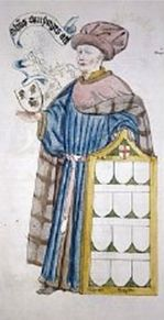 A watercolour portrait of Thomas Canynges (fl. 1450), who was Lord Mayor of London in 1456–1457 having been elected Alderman for Aldgate ward in 1445, and a member of the Worshipful Company of Grocers. Thomas was the eldest brother of William II Canynges (c. 1399–1474), a merchant and shipper from Bristol and one of the wealthiest private citizens of his day. The portrait was one of a series of 15th-century Lord Mayors painted in watercolour on paper by Roger Leigh. The series places emphasis on the subjects' armorials, shown in escutcheons. Thomas Canynges is shown wearing his aldermanic robes and holding the Canynges arms in his right hand, the blazon of which is "argent, three Moors' heads couped in profile proper wreathed around the temples of the first and azure": from a description of the arms of his descendant Canning in Bernard Burke (1884) The General Armory of England, Scotland, Ireland, and Wales: Comprising a Registry of Armorial Bearings from the Earliest to the Present Time, London: Harrison, p. 166 OCLC: 1647426. The arms of the City of London are depicted under his left hand in the pediment of the framed shields.